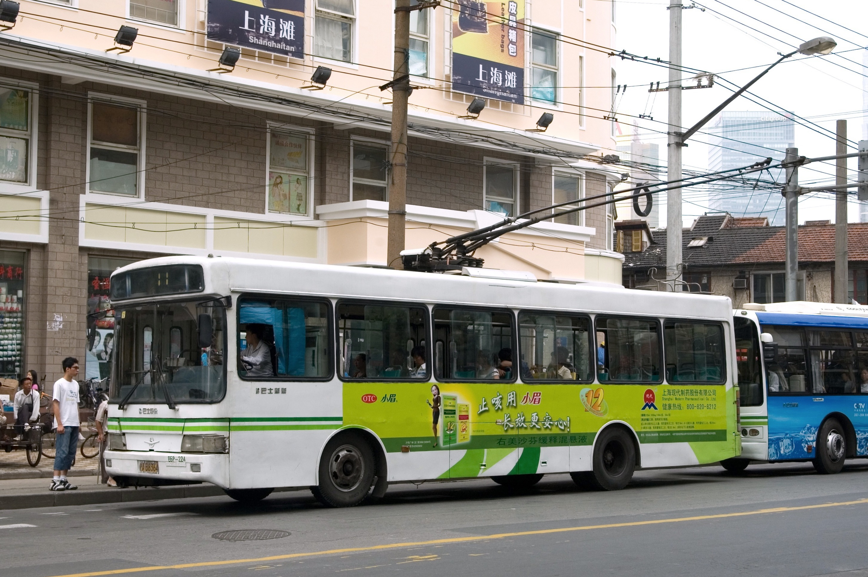 A trolleybus in Shanghai, China, on route 11. Number E5P-224 is a locally built SK5105GP-model trolleybus.